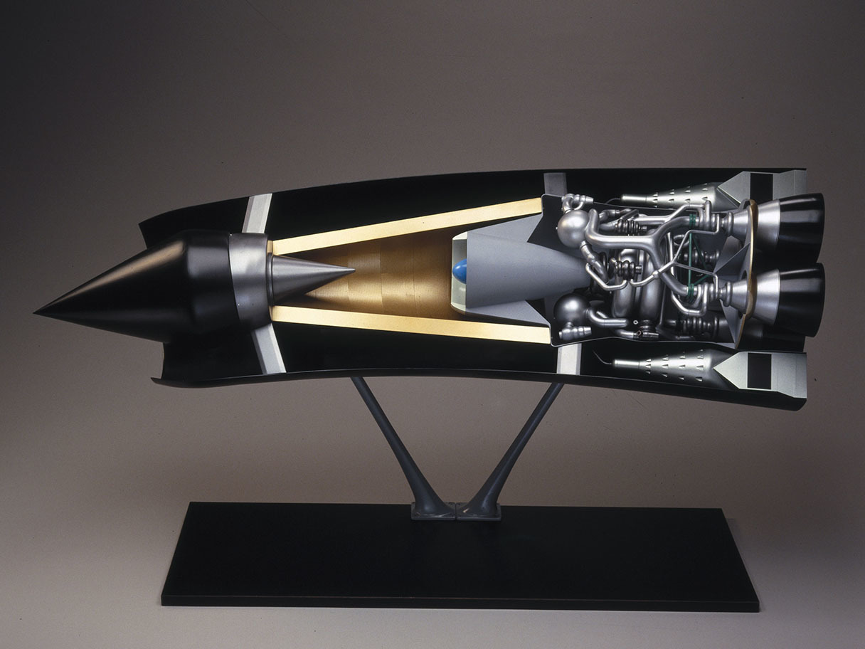 Scale model. Skylon is a British design for an unmanned Single Stage to Orbit (SSTO) spaceplane designed to reach Earth orbit where it would deploy and retrieve satellites. It was intended to be completely reusable, with the objective of cutting the cost of launches dramatically. It was envisaged that some 30 Skylon vehicles would be built, and operated by commercial companies, and it was planned that Skylon could be adapted for carrying passengers, or ‘space tourists’. At the heart of the Skylon concept were its two innovatory Synergestic Air Breathing and Rocket Engines (SABREs) which were designed to draw oxygen directly from the atmosphere. Skylon is one example of several SSTO launcher concepts considered worldwide in the 1990s.